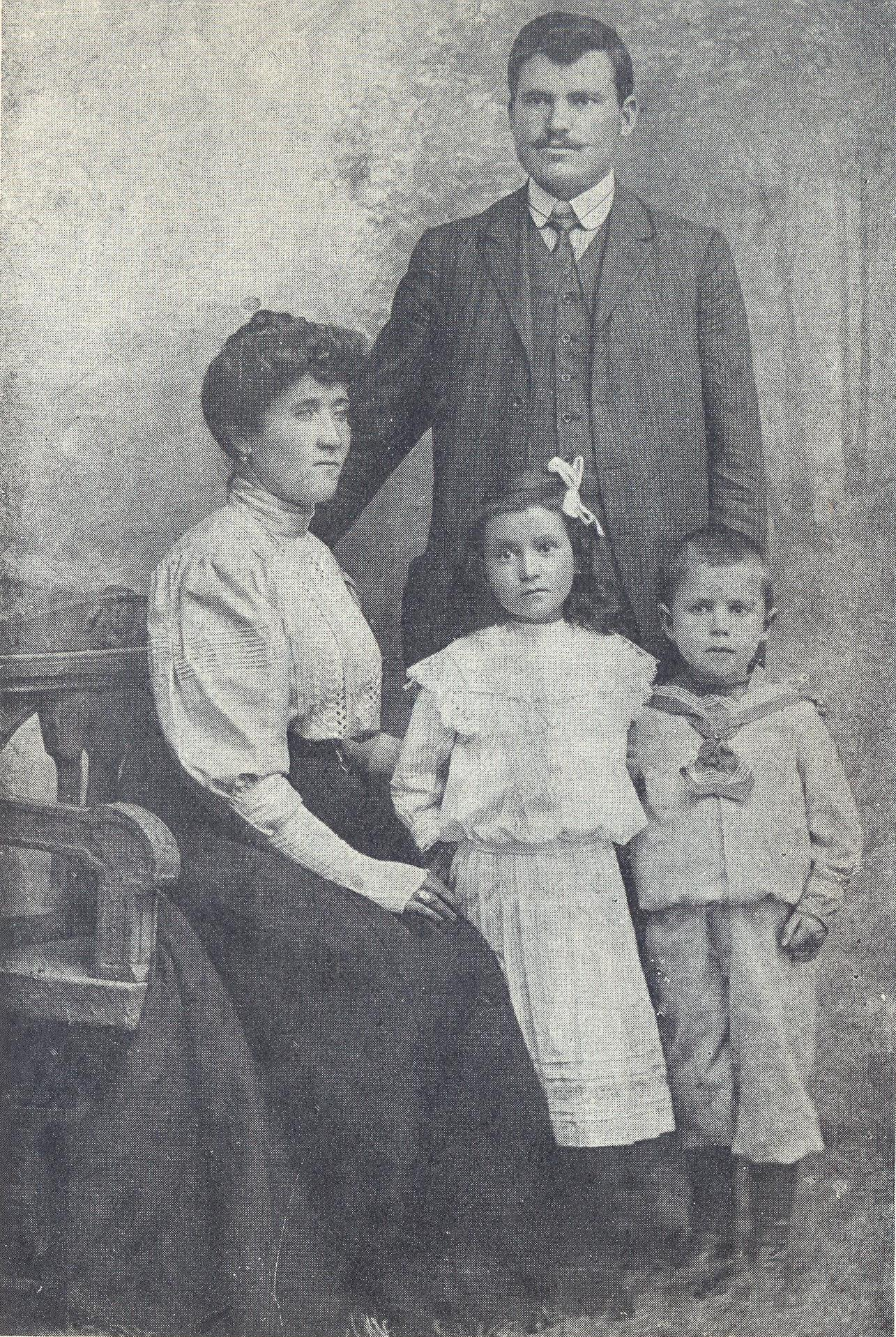 Aleksandar Stambolijski, Milena Stambolijska and their children Nadezhda and Asen, 1900's.